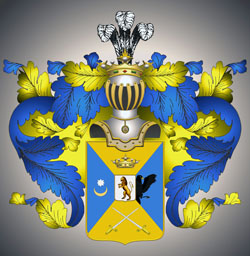 Coat of Arms of Poluehtovy family